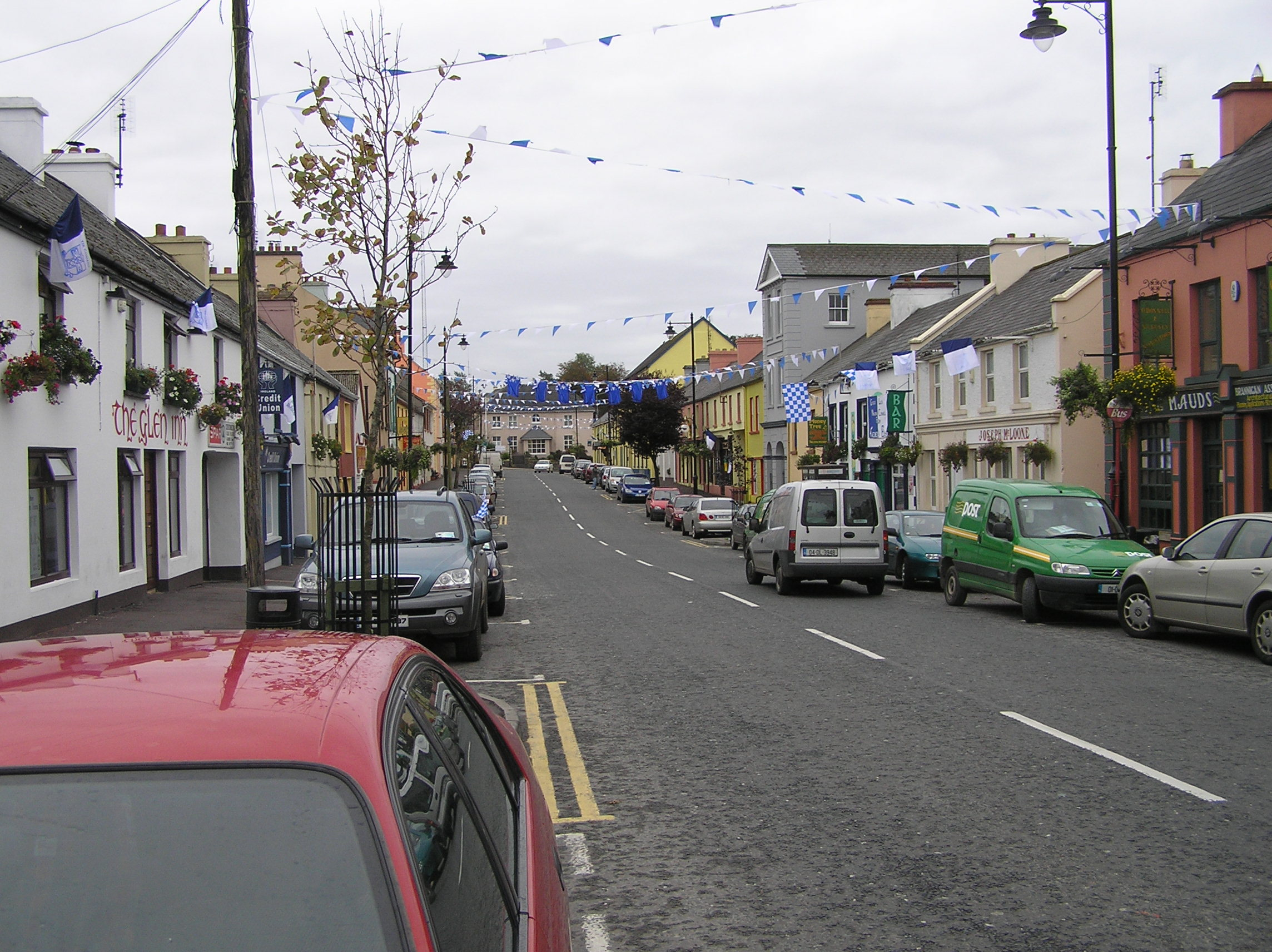 Town of Glenties, County Donegal, Ireland